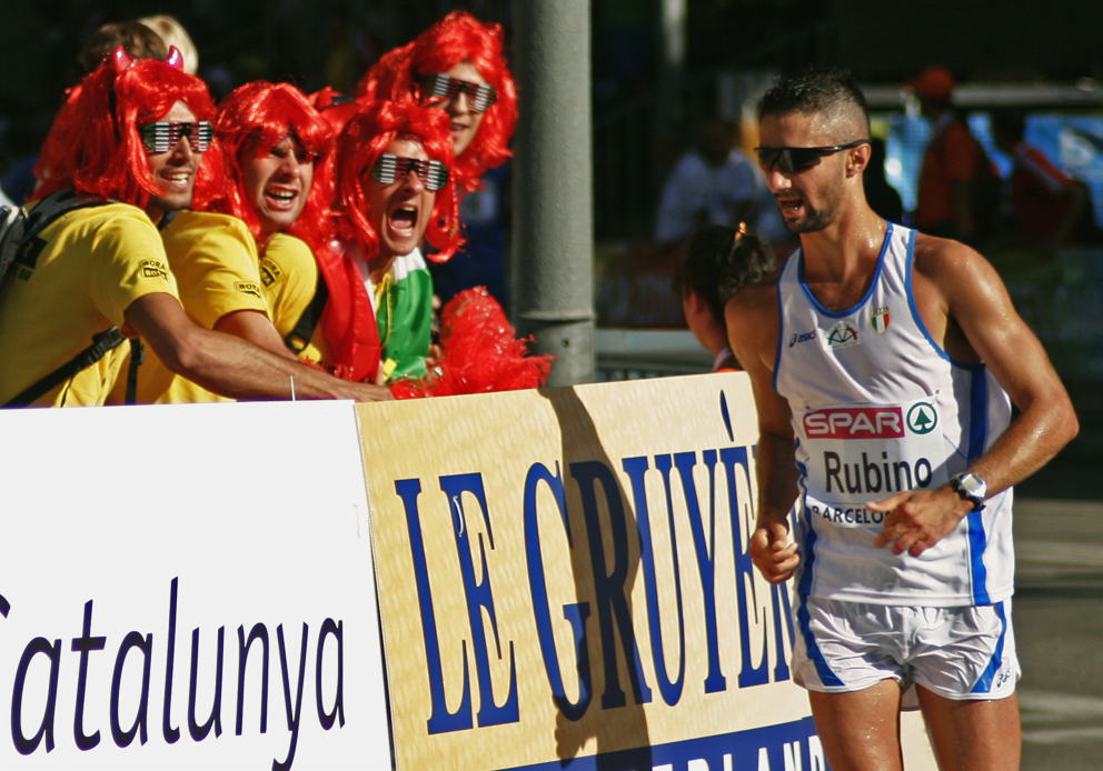 Italian fans cheer on Giorgio Rubino as he runs in the 20 kilometers march final at the Barcelona 2010 European Athletics Championships.